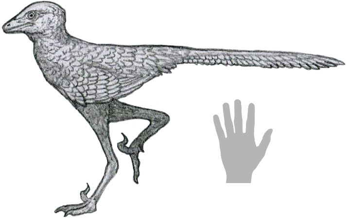 Reconstruction of Liaoningvenator curriei by Tom Parker, 2017.